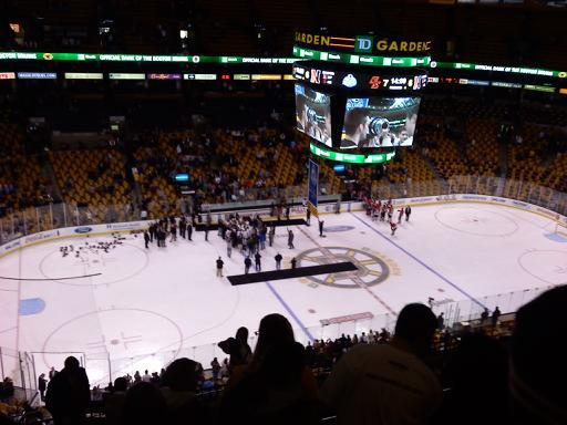 On ice celebrations at the TD Garden after Boston College wins the 2011 Beanpot.